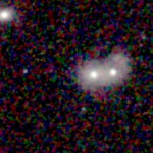 Galaxy NGC 4410